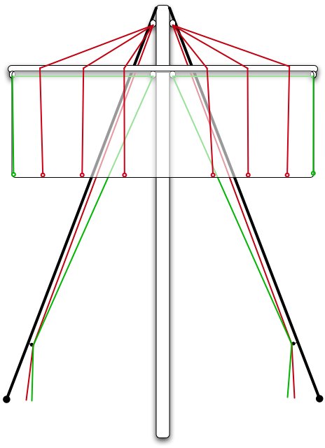 Diagram of clewlines and buntlines on a single sail of a square-rigged ship. Clewlines are green, buntlines are red.